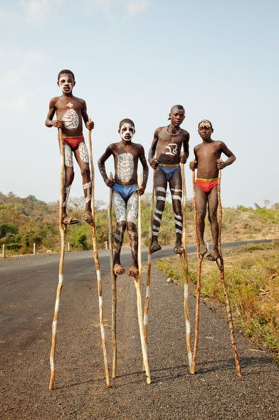 This is an ancient Karanga way of sports whereby man and small boys could race on their sticks,it is still common practice within the doma people in Zimabwe This is an image with the theme "Play" from: Zimbabwe